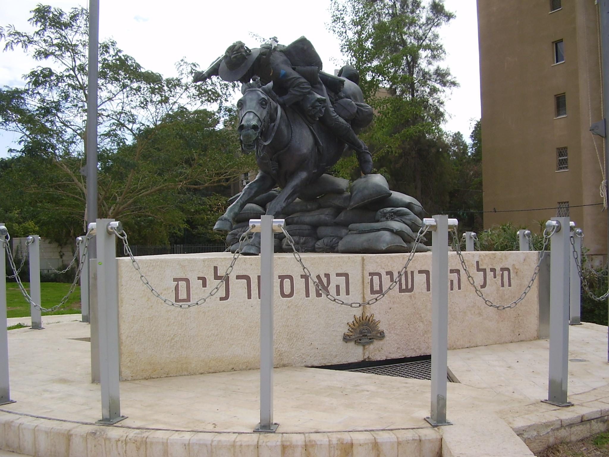 australian light horse monument (first world war) in be\'er sheva